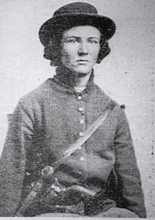 Alexander W. Campbell